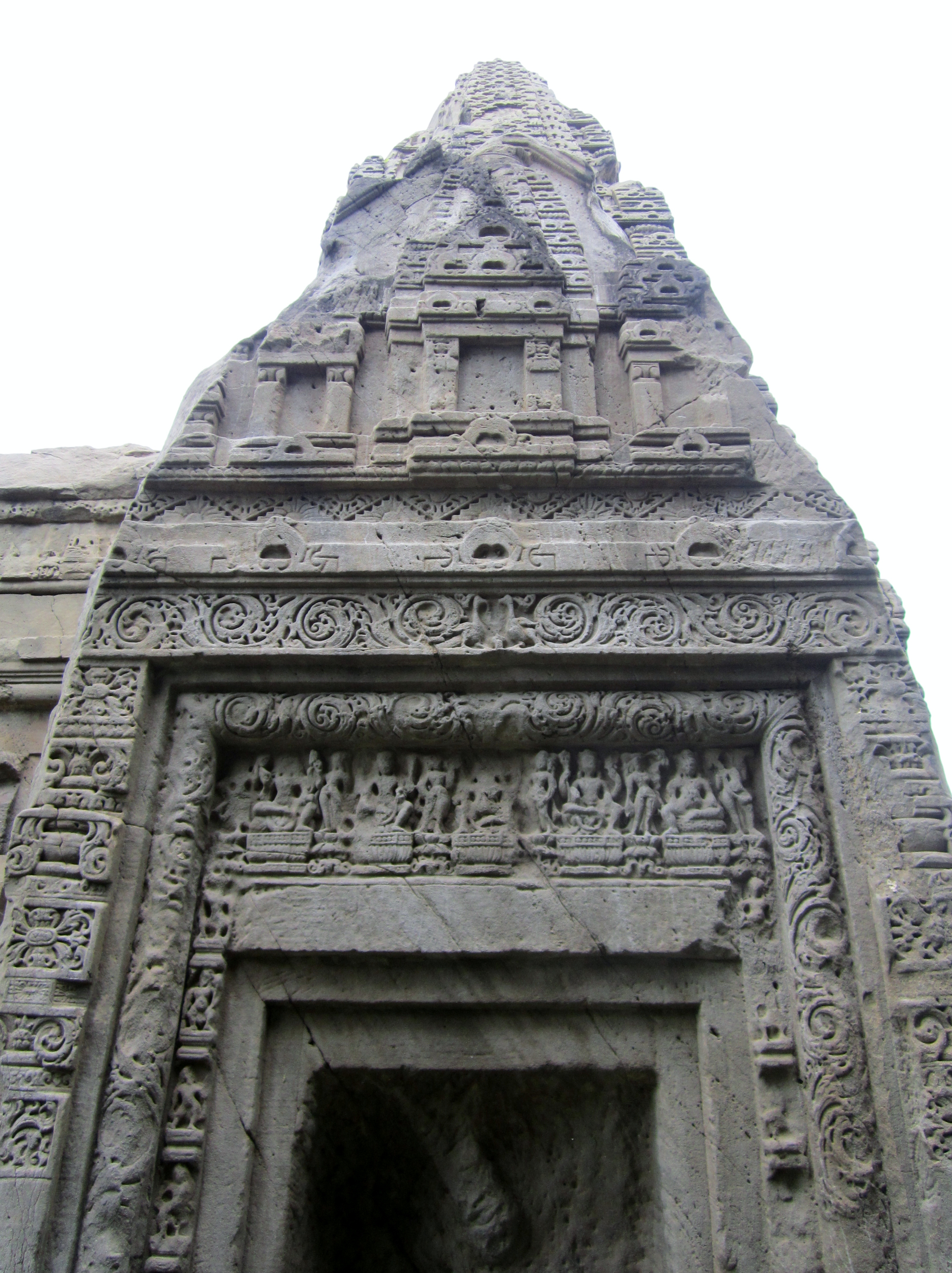 Monolithic Rock Cut Temples